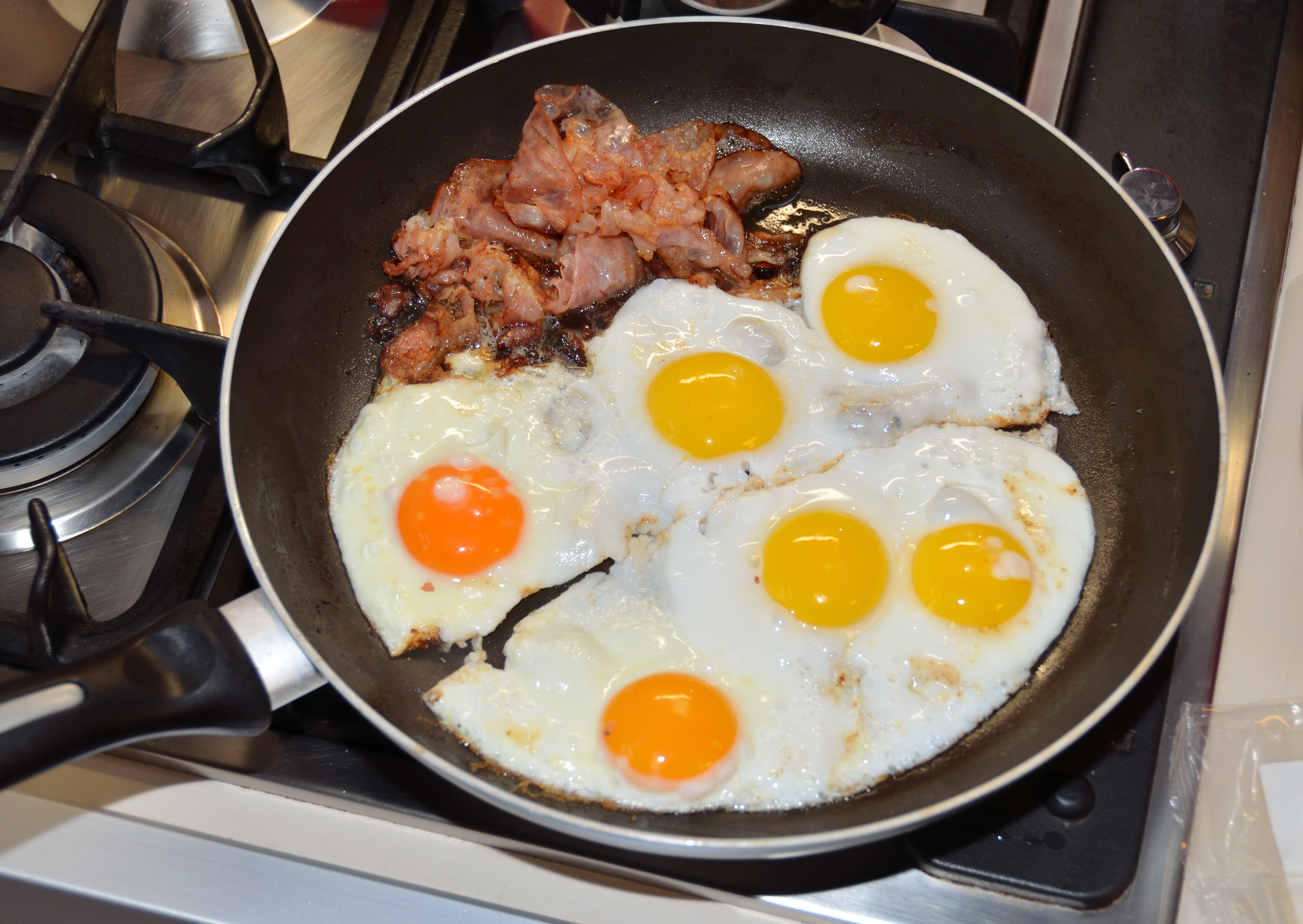 different color of egg yolk, eggs from hens living outdoor (left) and bio eggs from hens getting different food (right).